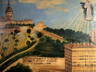 Brunet House at Croix-Rousse (Lyon) bombarded during the second canut revolt in 1834. Oil on canvas.